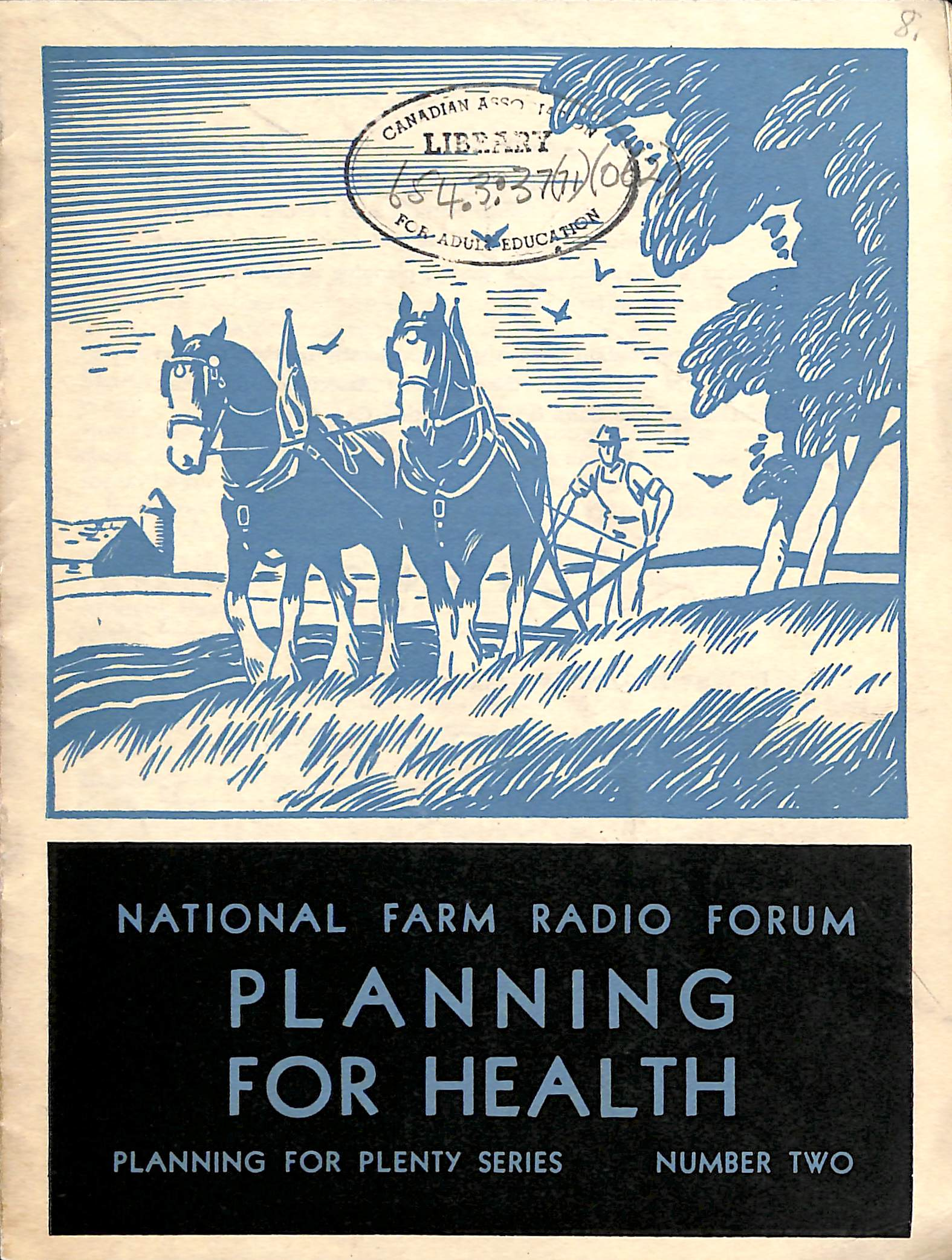 Cover page of Farm Forum Guide from 1942-1943 season entitled "Planning for Health".